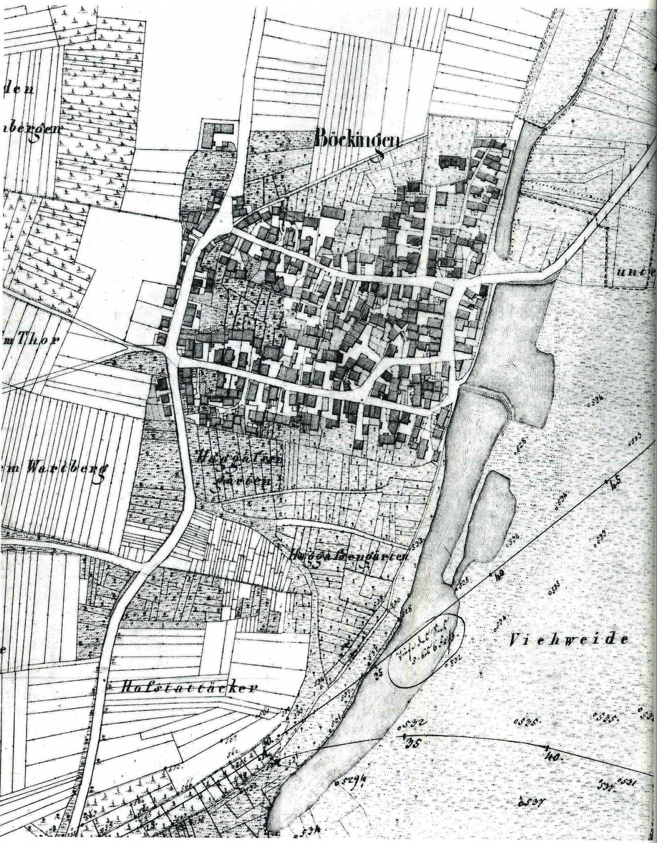 1830 Böckingen